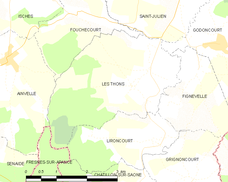 Map of French municipality Les Thons